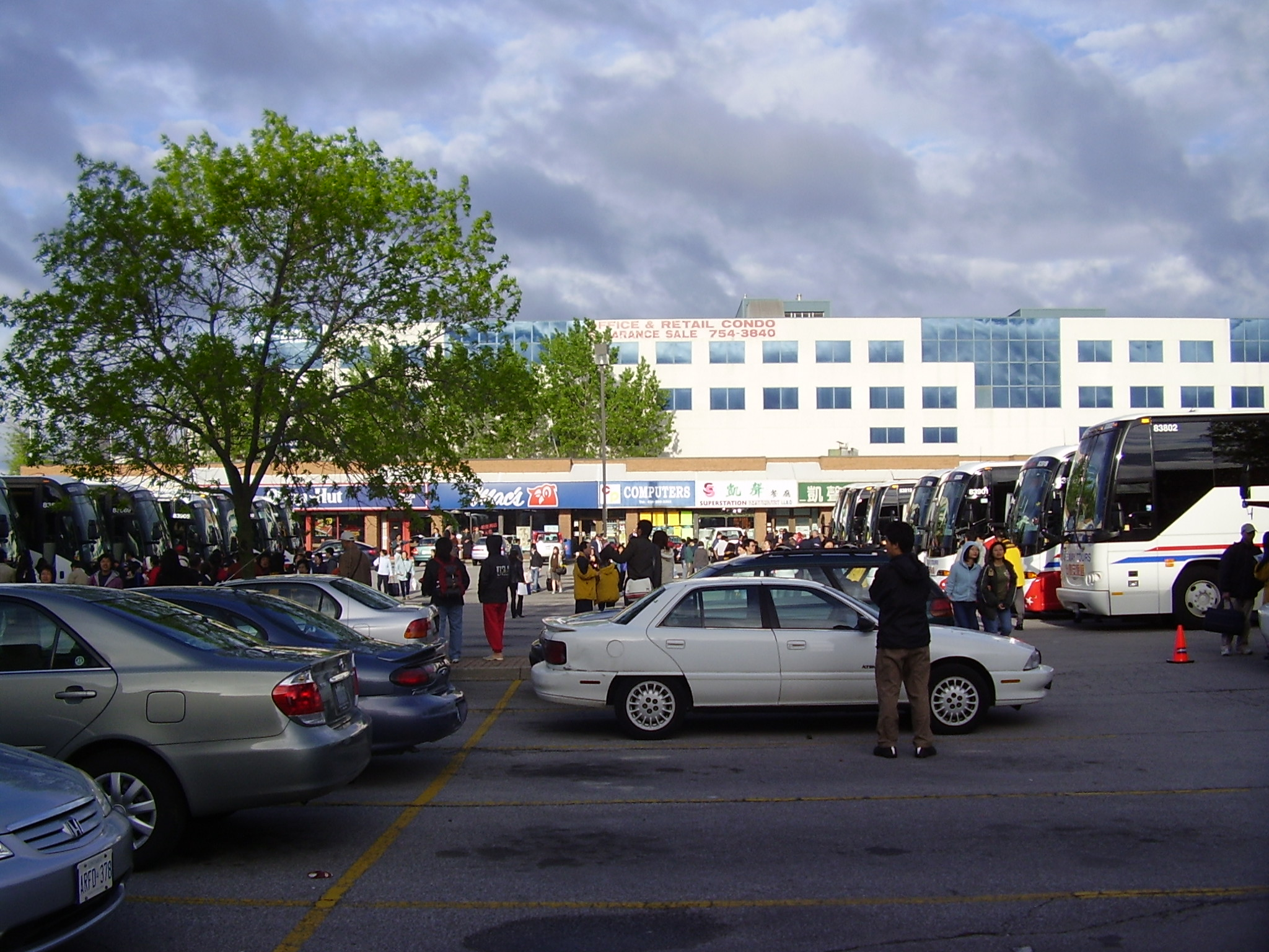 View of many Safeway Tours buses waiting for passengers (tourists, the vast majority Chinese Canadians) in a mall in Finch and Midland Avenues intersection. Camera: Olympus D-535